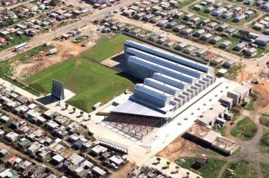 An aerial view of Red Location Museum in New Brighton township near Port Elizabeth, Eastern Cape, South Africa.